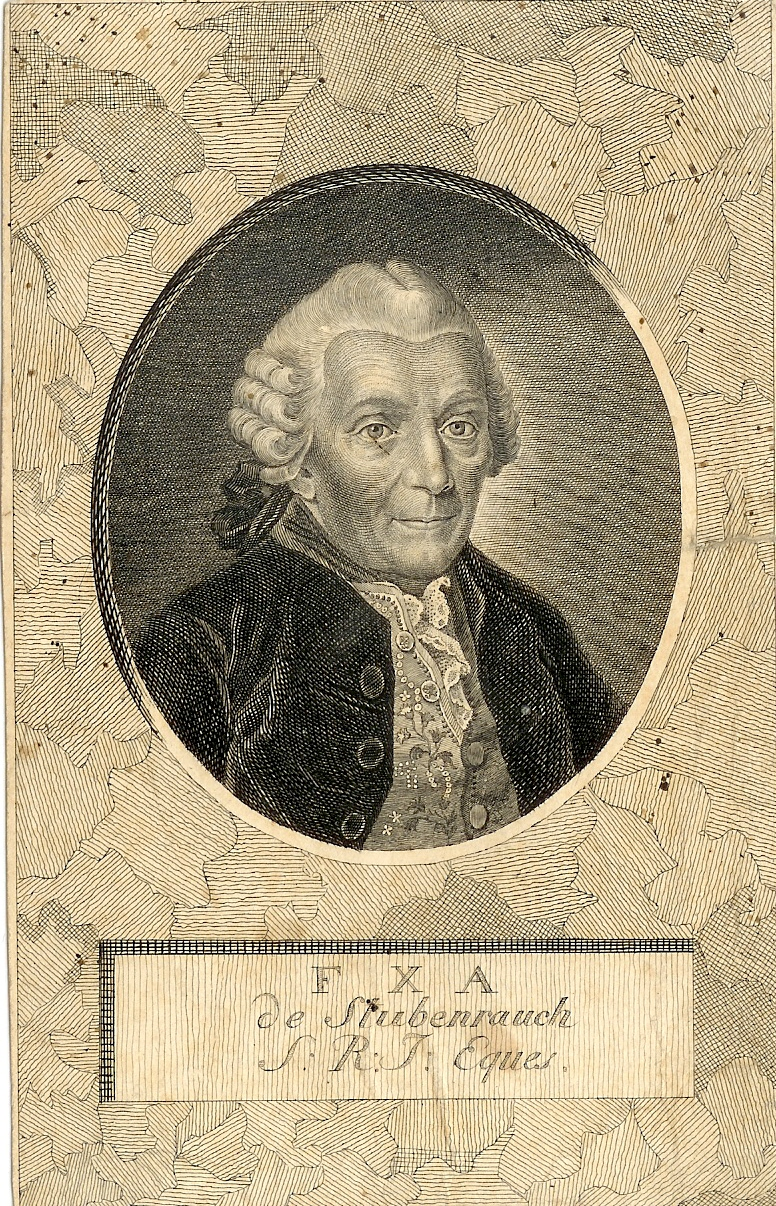 Kupferstich mit Porträt des Franz Xaver Anton von Stubenrauch